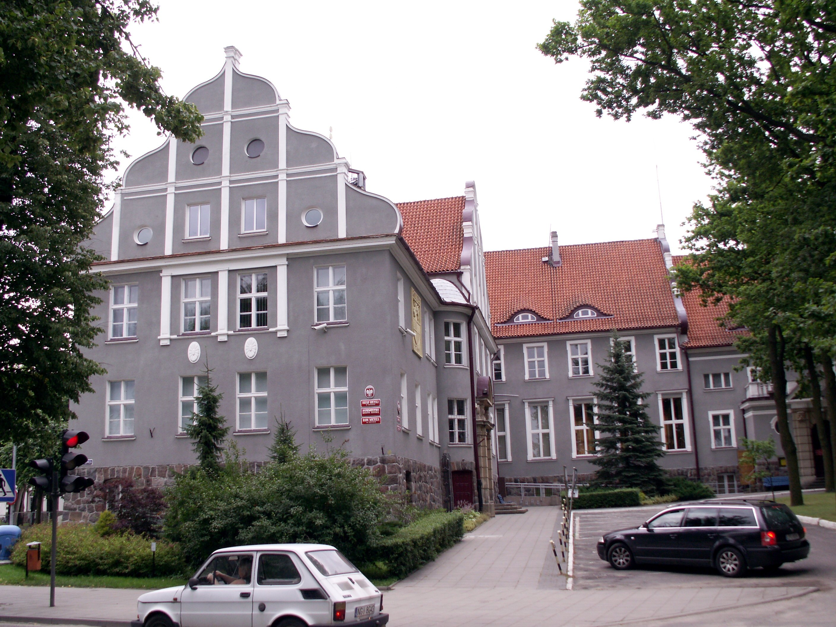 Giżycko, Poland - city office